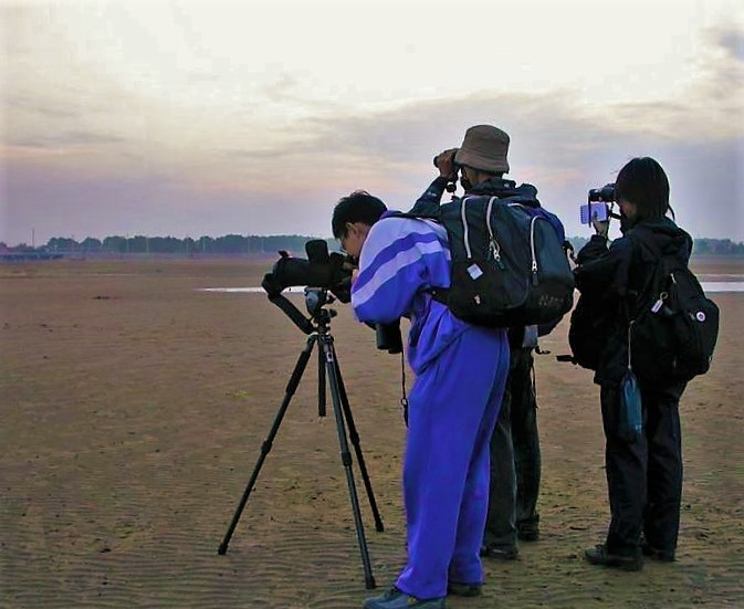 A Chinese team taken part in 2005 beidaihe international birding race.There are 4 munbers in this team another one is me.